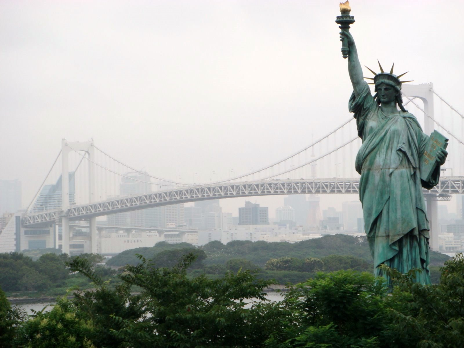 The replica Statue of Liberty in Odaiba, Rainbow Bridge is behind it